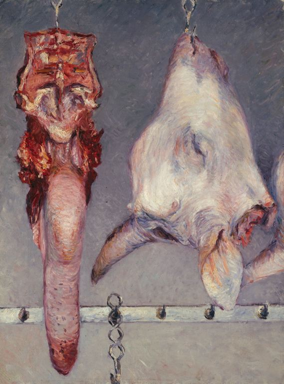 Calf's Head and Ox Tongue